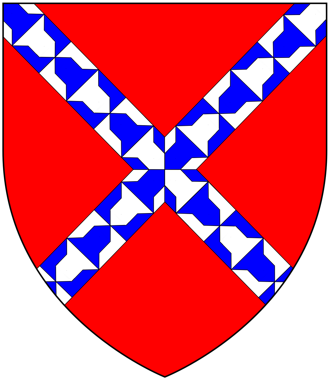 Arms of Willington of Umberleigh, Devon & Barcheston, Warwickshire: Gules, a saltire vair (as exists on Beaumont monument, Gittisham Church, Devon)